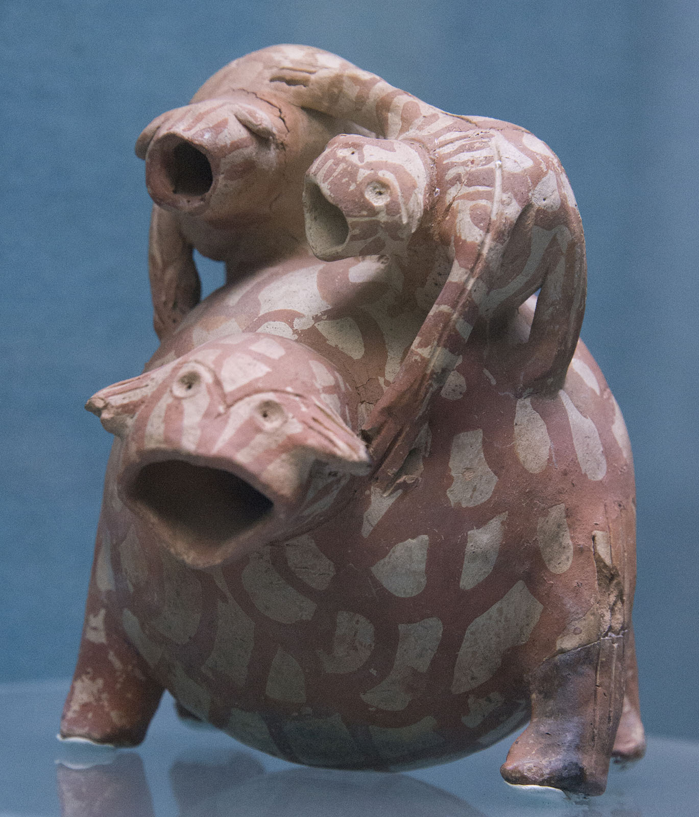 After lots of searching the web I found on a site by the Buffalo University more about Seyitömer Höyüğü, where finds like this (the museum has several) stem from. I found them extremely curious. The archaeological site of Seyitömer Höyük is located within the Kütahya region of western Turkey, 350 kilometers south of Istanbul, at an important juncture between the Mesopotamian and Mediterranean worlds. The development of advanced metal technology fuelled commerce between these distant regions as early as 3,000 B.C., leading to the establishment of important trade centers linking east and west. The best-preserved example of such a center is Seyitömer Höyük, where thousands of artifacts and dozens of pottery and textile workshops paint a vivid picture of village life from the Early Bronze Age through the Roman period. […] The archaeological site of Seyitömer Höyük is situated on top of a 12 million ton coal reserve. Beginning in 2015, a private company will extract this coal, and the archaeological site will be permanently destroyed. Students in this field school will have the opportunity excavate and document archaeological material from this threatened site, which will make a lasting contribution to archaeology. In addition, they will gain firsthand experience with the ethical issues surrounding cultural heritage management.